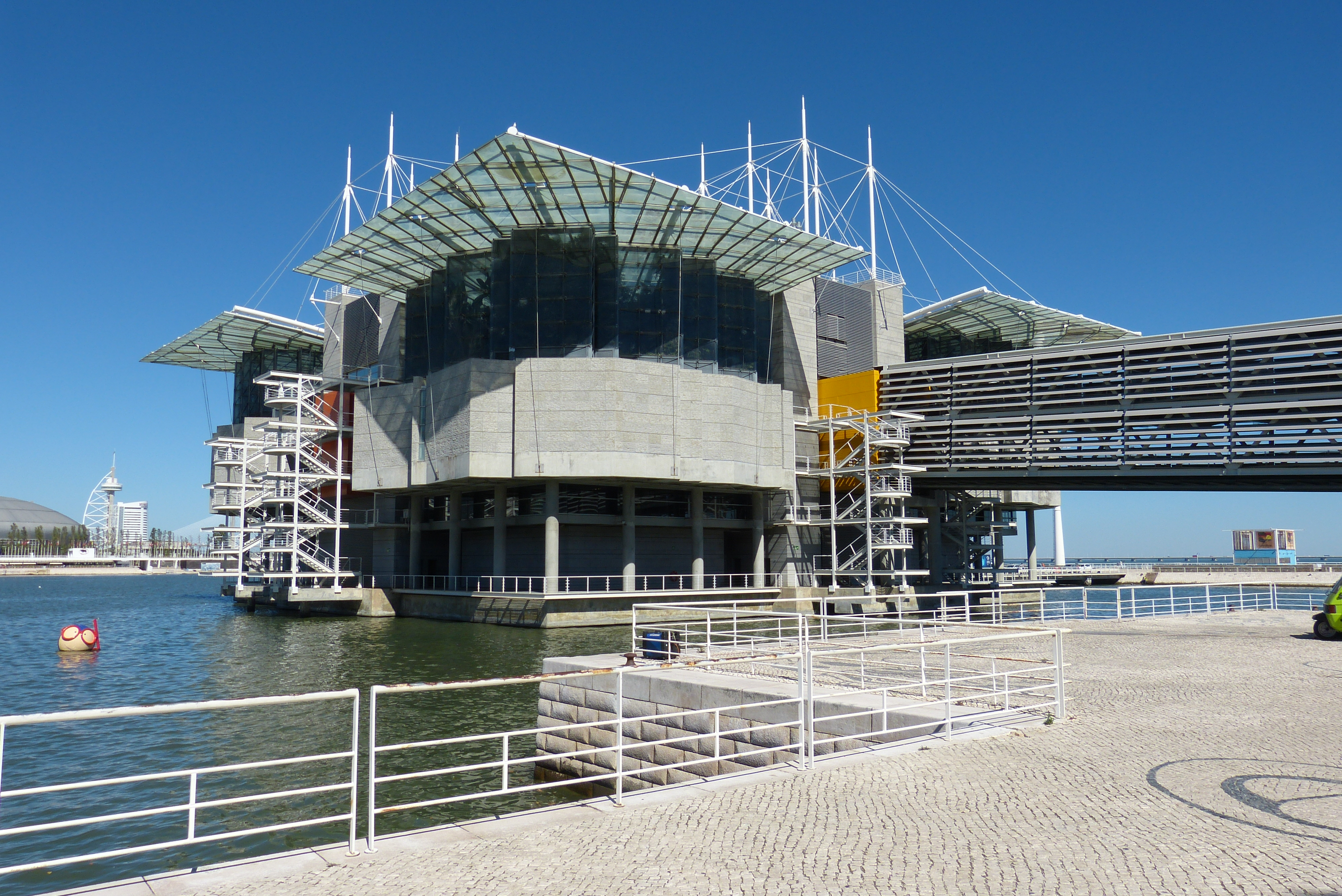 Oceanário de Lisboa by day